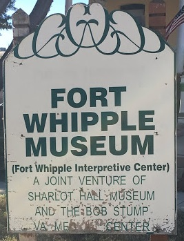 Fort Whipple Museum in Prescott, Az